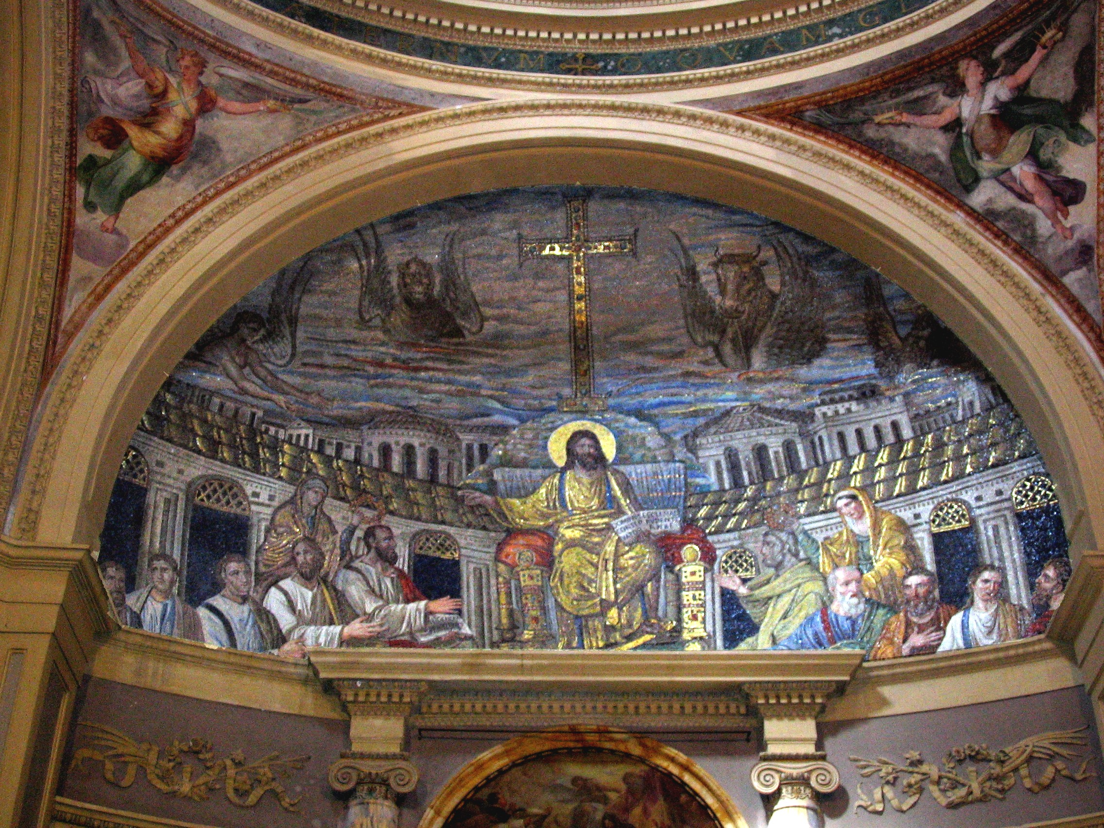 The Late Roman Empire apsidal mosaic from the Church of Santa Pudenziana